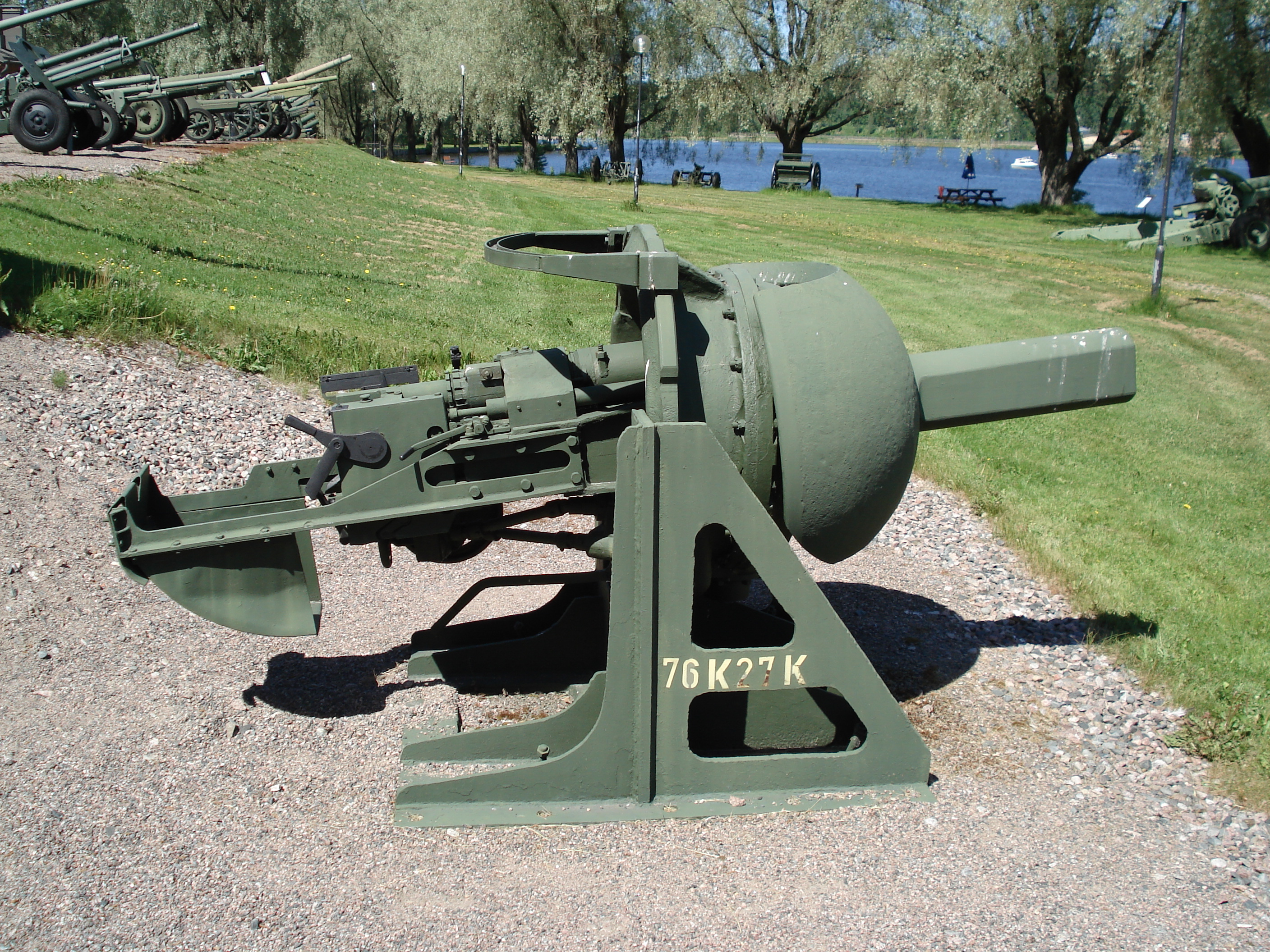 Soviet 76-mm bunker gun (Капонирное орудие Л-17), Finnish designation 76K27K, displayed in Finnish Artillery Museum